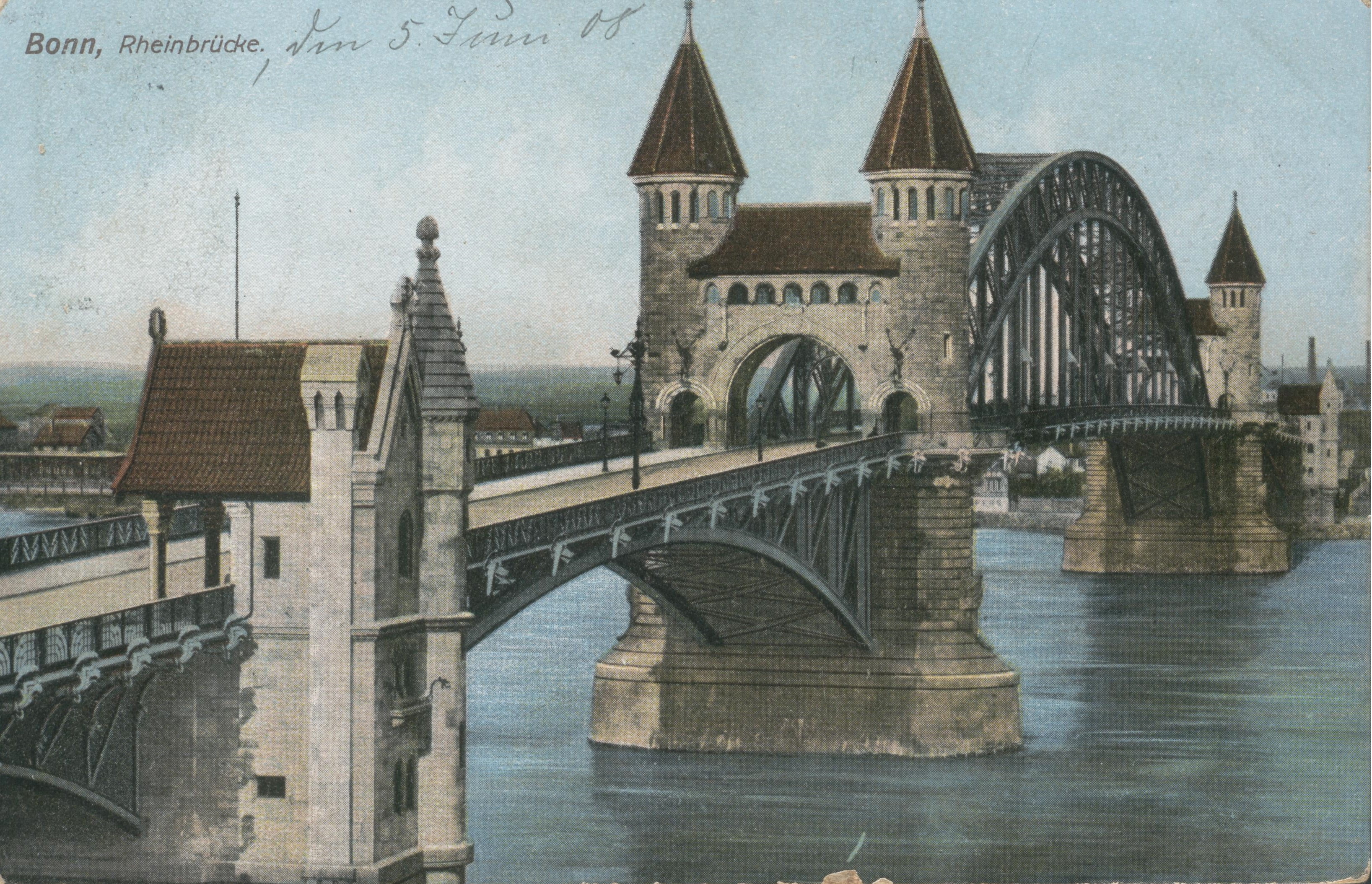 The old bridge over the Rhine in Bonn, Bonn, Germany, postcard